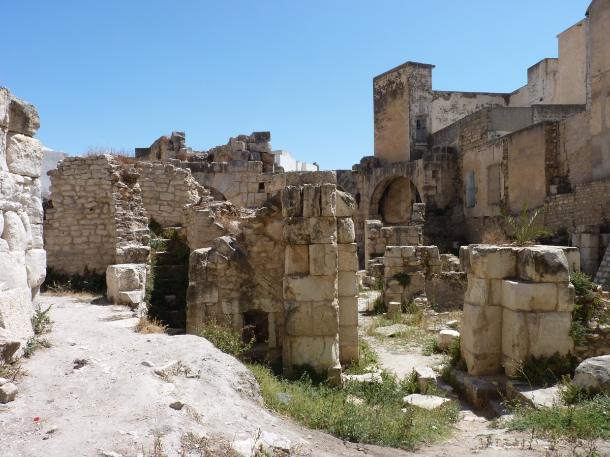 Excavation of Roman bath in Sicca Veneria, todays El Kef